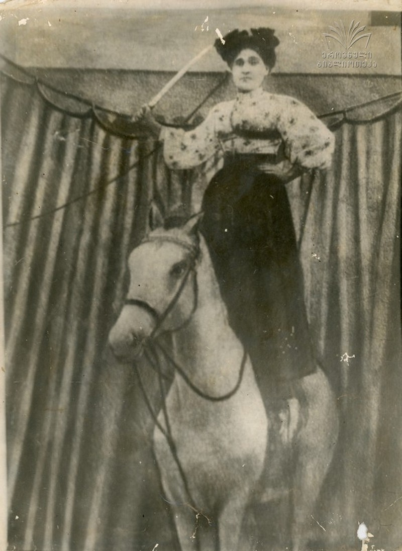 Gurian Rider Women, Participated in USA Wild West Show. (According to the The National Parliamentary Library of Georgia, the photograph, which belongs to the Lanchkhuti Museum of Local Lore, was taken in Chicago and posted on their website in 2012.) The back side of the photograph of Christine Tsintsadze, shows the date 1907.